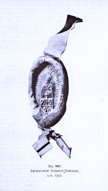 Seal of Archbishop Andrew Forman, Archbishop of St Andrews, Scotland